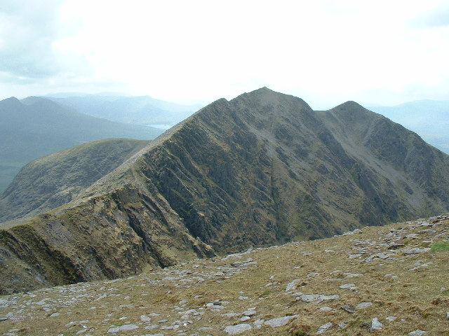 Caher, Macgillycuddy's Reeks. Looking west to Caher (1001m) from the shoulder of Carrauntoohil